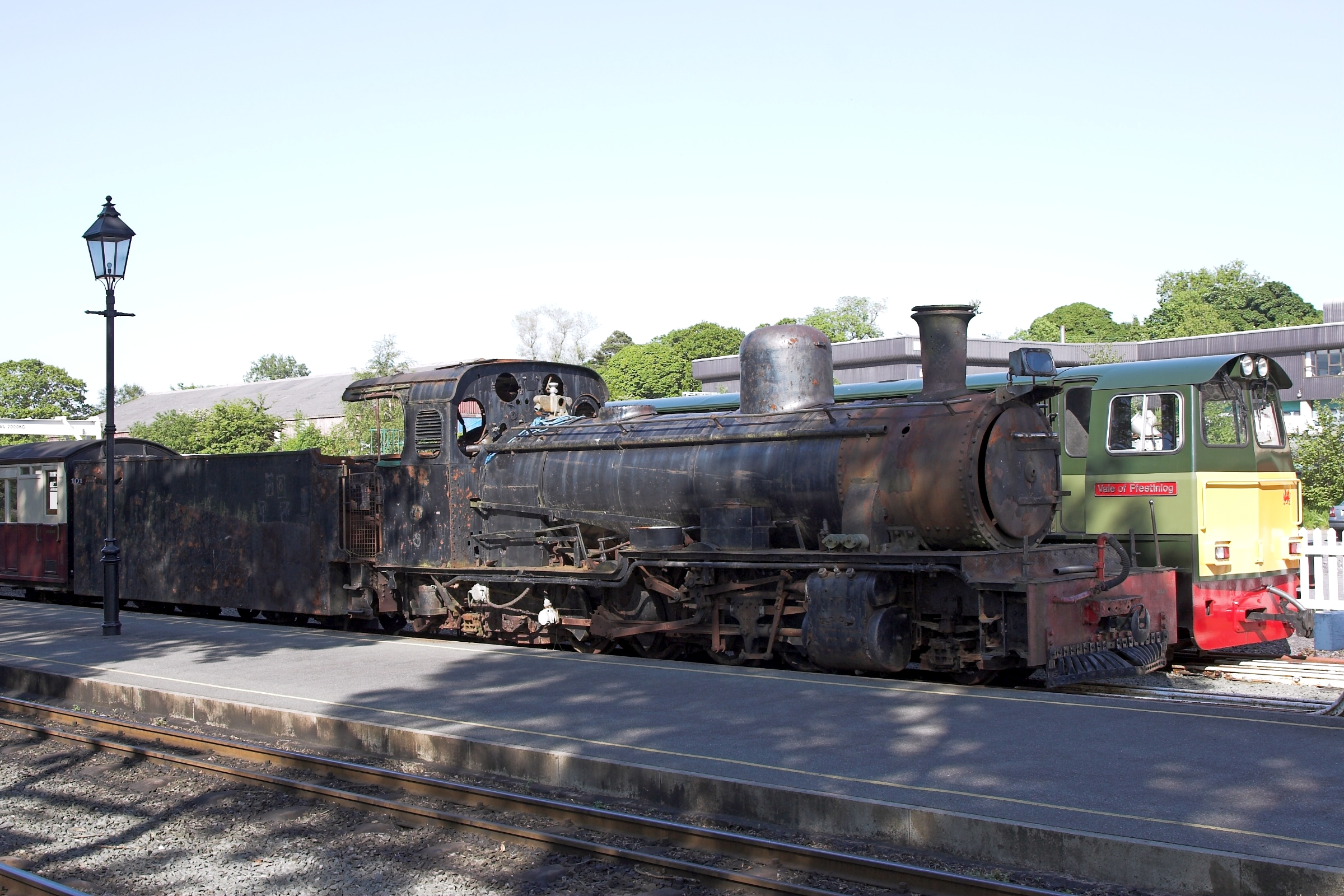 Welsh Highland Railway NG15 No.133 stored at Dinas yard.